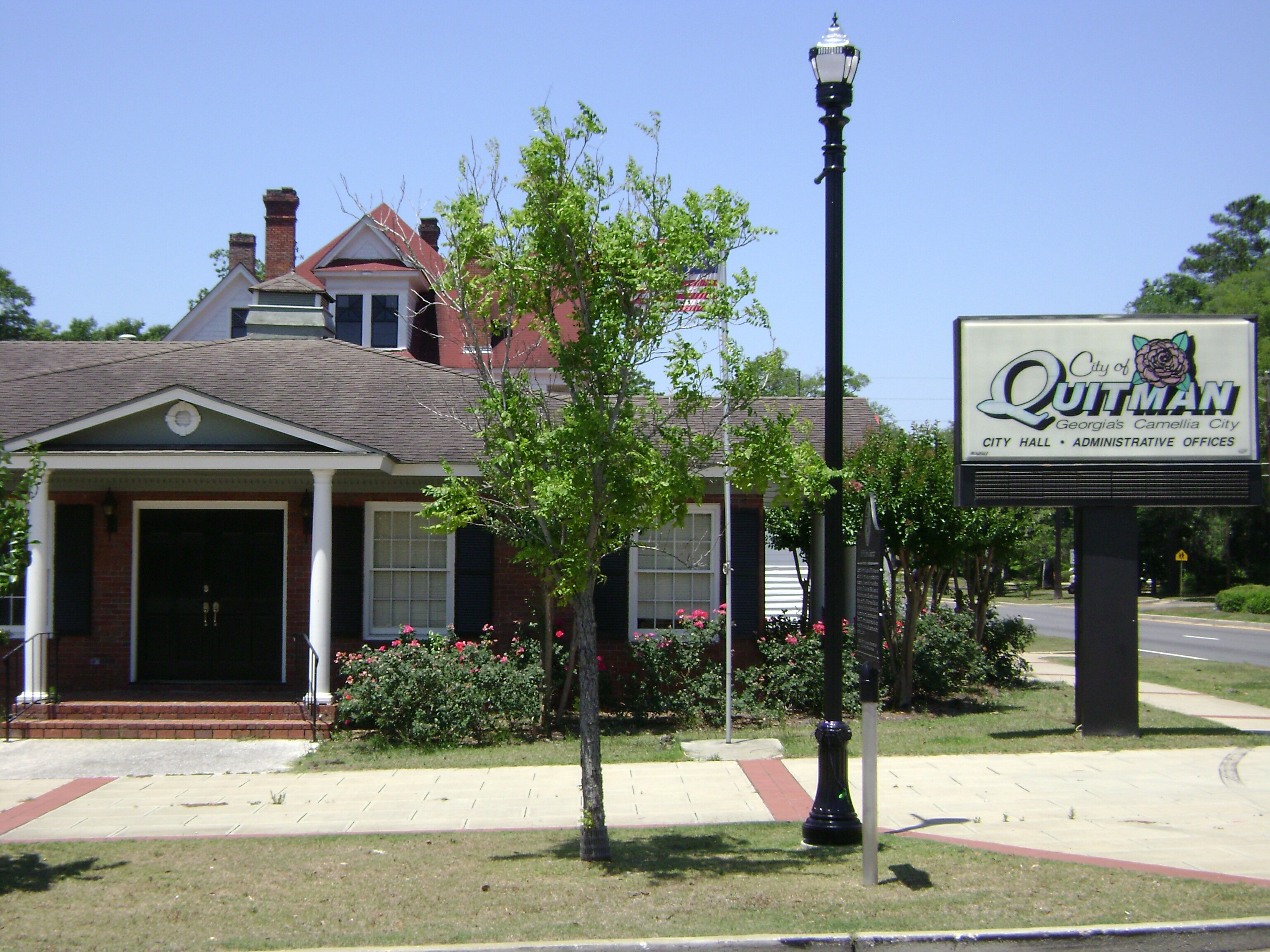 Quitman City Hall in Quitman, Brooks County, Georgia. The building is located on the southwest corner of W. Screven St. (US-84) and S. Court St. (US-221).